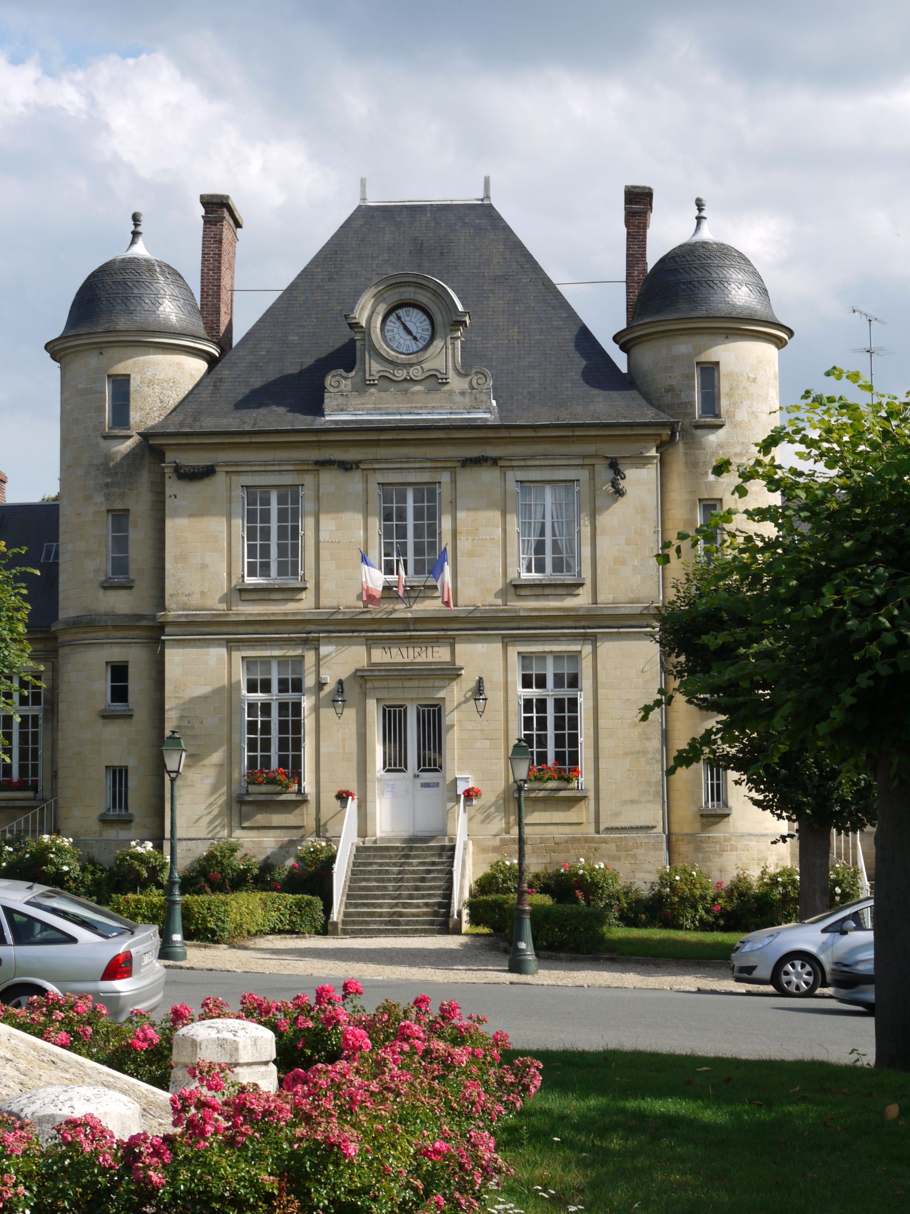 Town hall of Nesles la Vallée, Val d'Oise, Ile de France